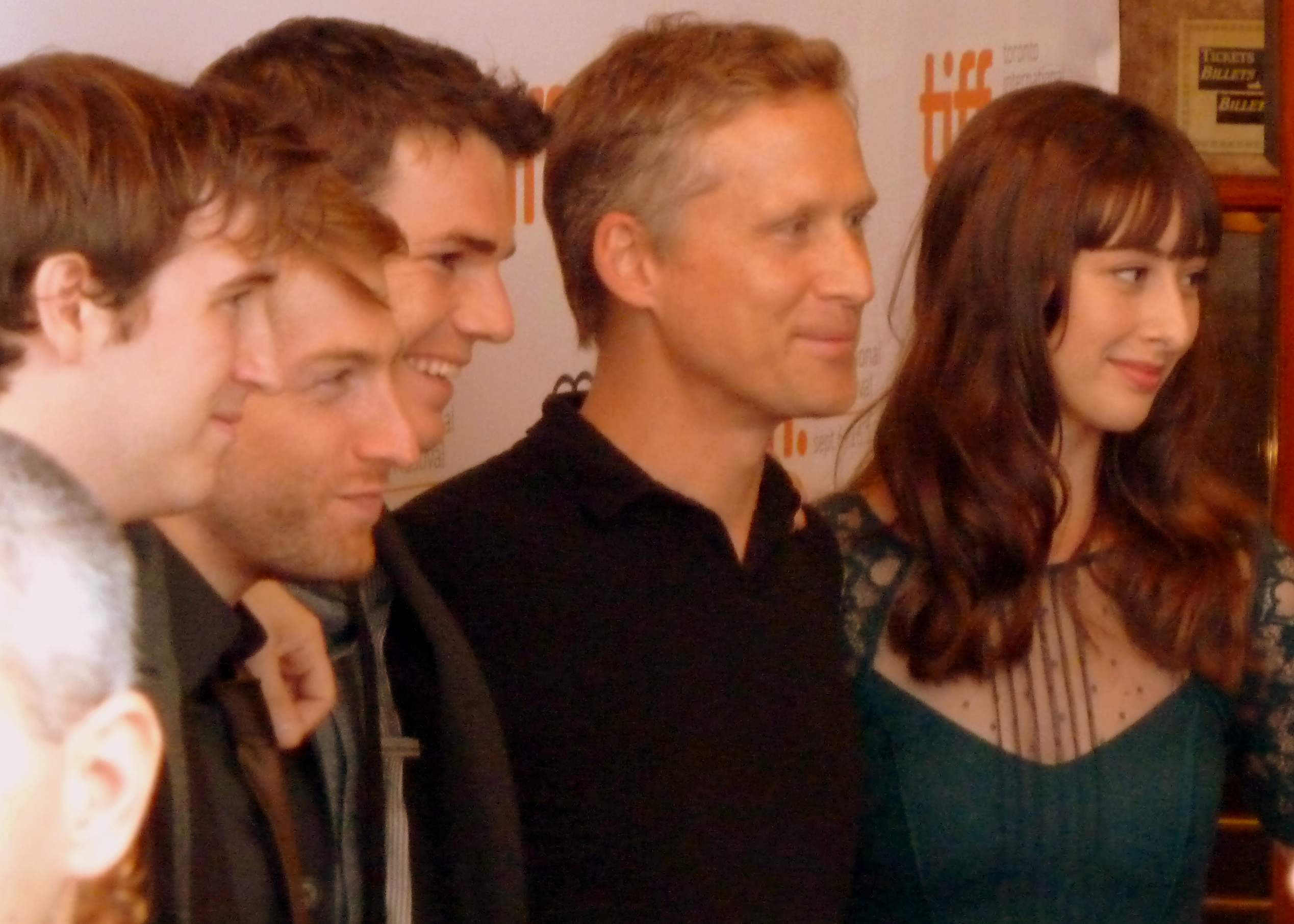 Brian McElhaney, Fran Kranz, Nick Kocher, Reed Diamond, and Jillian Morgese at the premiere of Much Ado About Nothing, Toronto Film Festival 2012